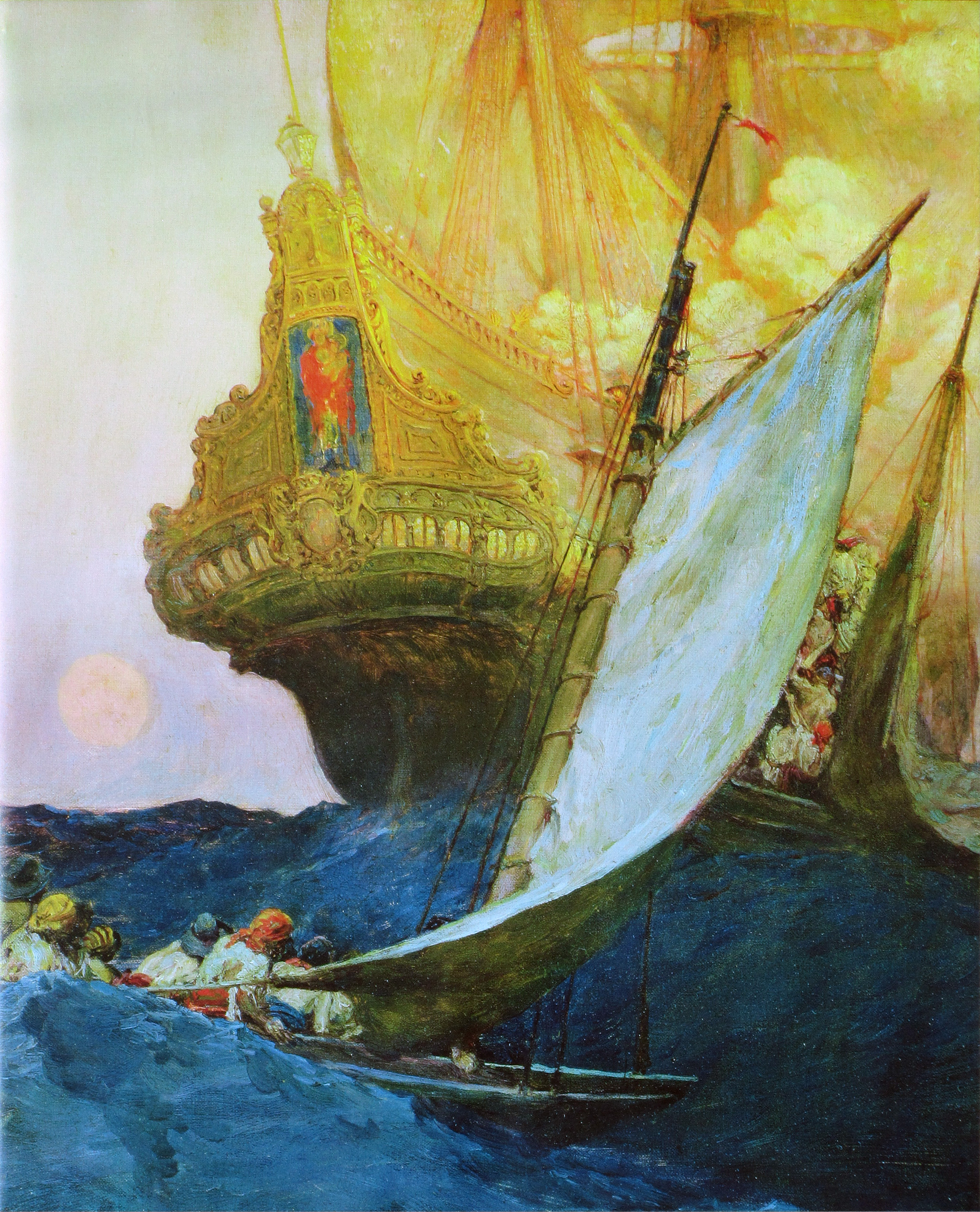 An Attack on a Galleon: illustration of pirates approaching a ship; this was published in: Pyle, Howard; Johnson, Merle De Vore (ed) (1921) "An Attack on a Galleon" in Howard Pyle's Book of Pirates: Fiction, Fact & Fancy Concerning the Buccaneers & Marooners of the Spanish Main, New York, United States, and London, United Kingdom: Harper and Brothers, pp. Frontispiece Retrieved on 14 April 2010.